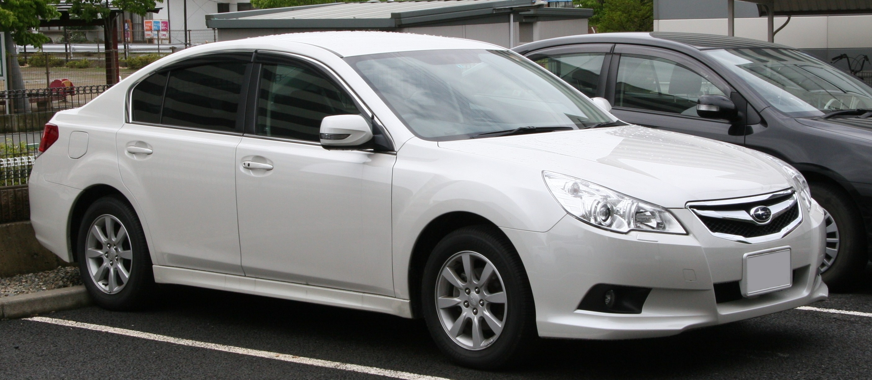 Subaru Legacy B4